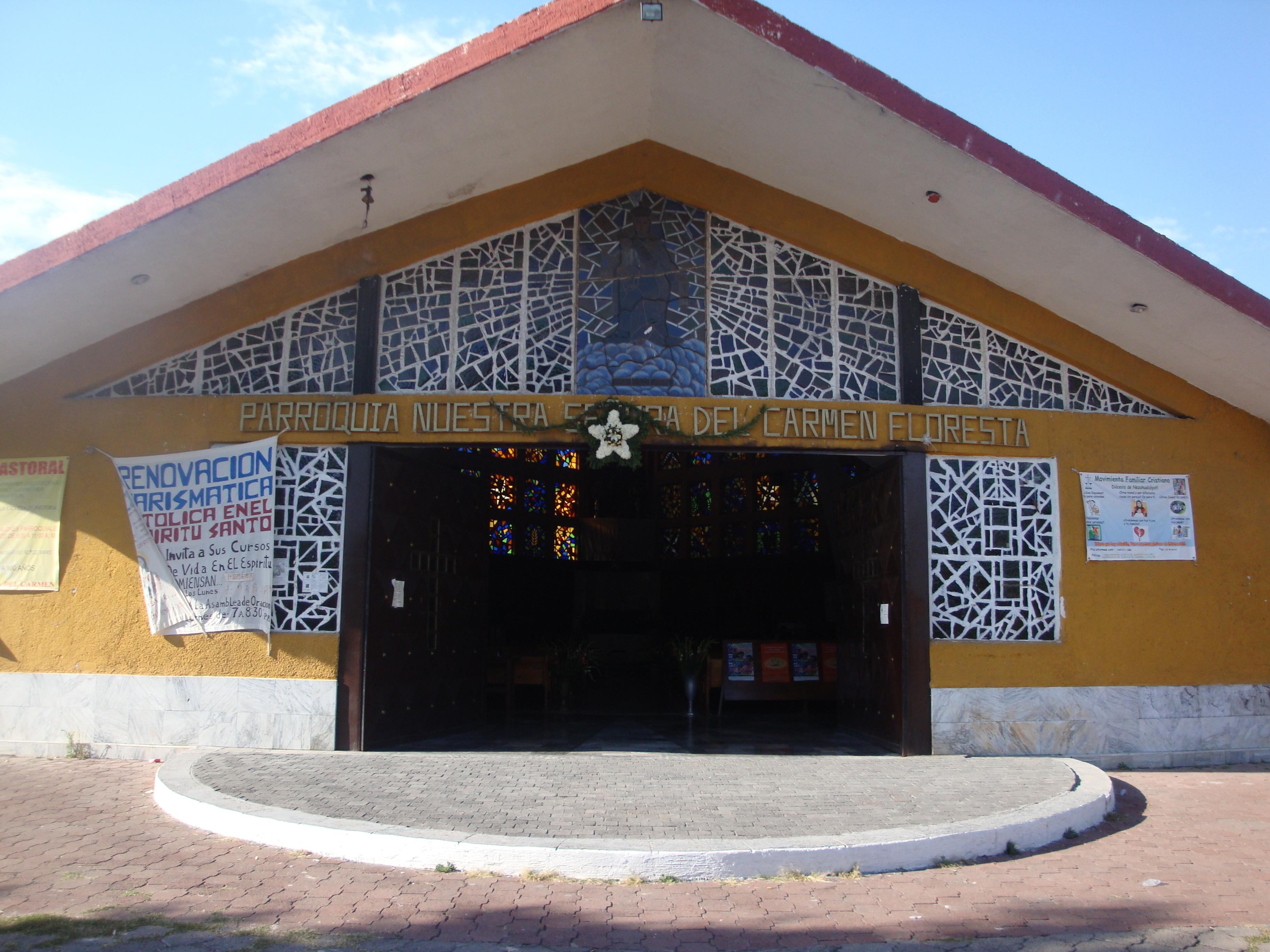 Front of the Church of Our Lady of Carmen (Los Reyes La Paz)